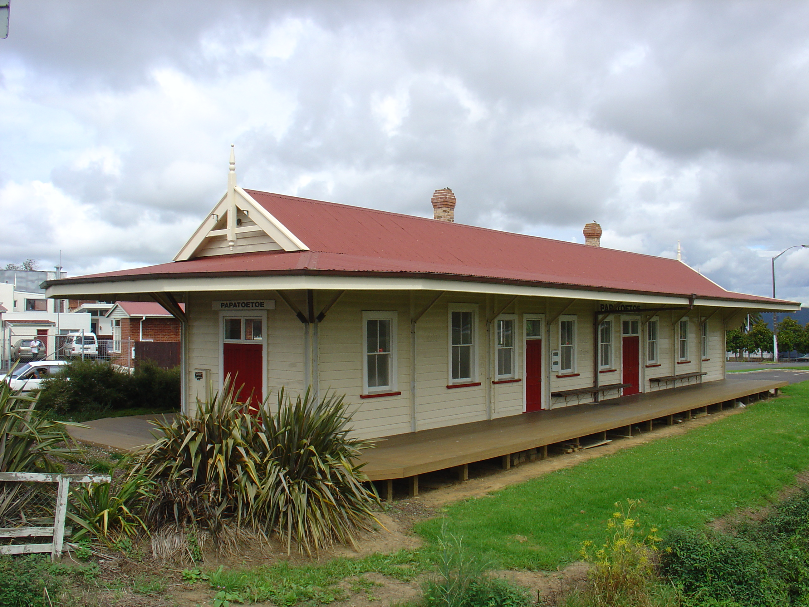 This is a side shot of the old Papatoetoe Train Station, taken by me for use on Wikipedia.